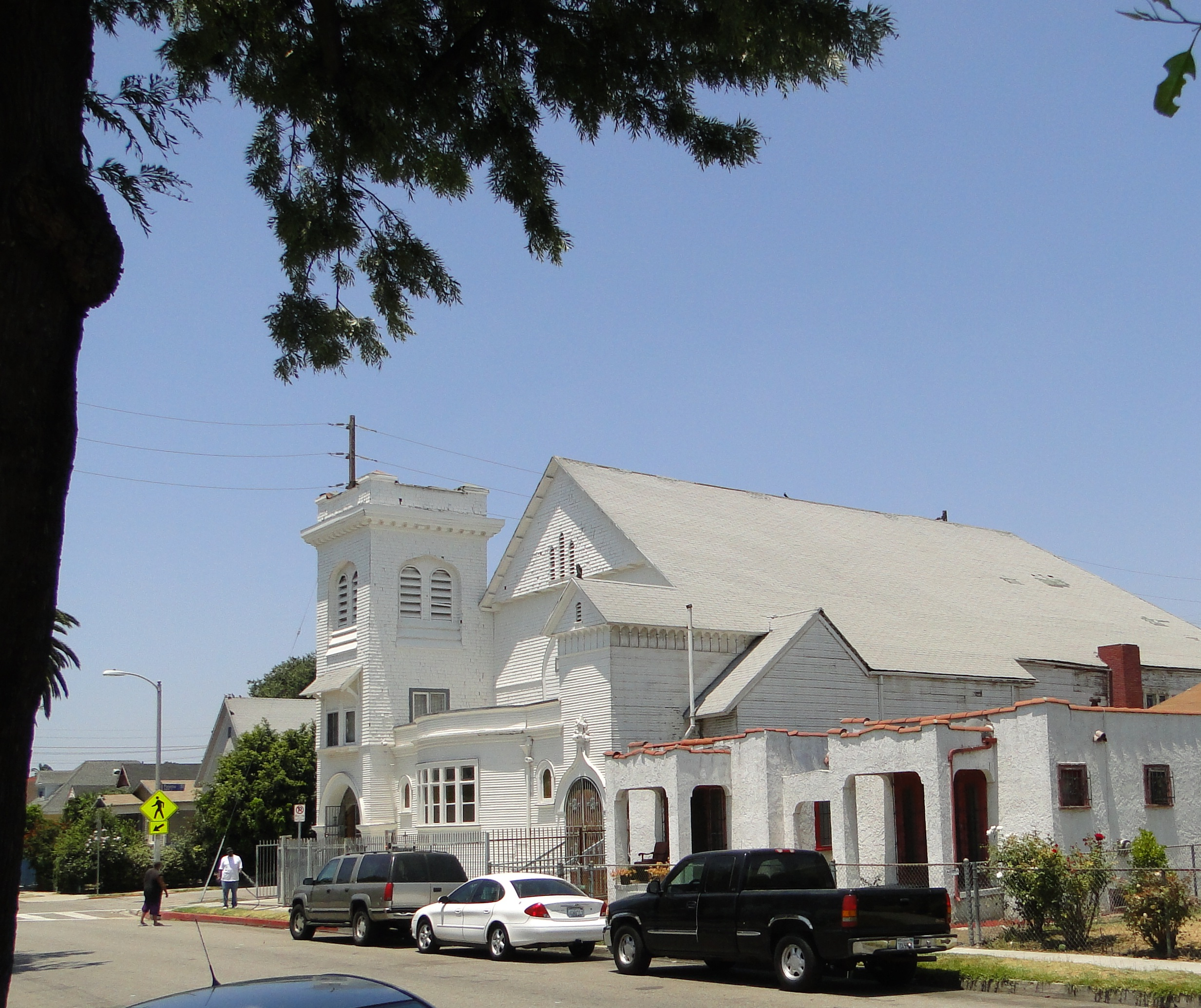 Crouch Memorial Church (formerly Beth Eden Baptist Temple) in 27th Street Historic District, 1001 E. 27th Street, Los Angeles, California. Listed in National Register of Historic Places